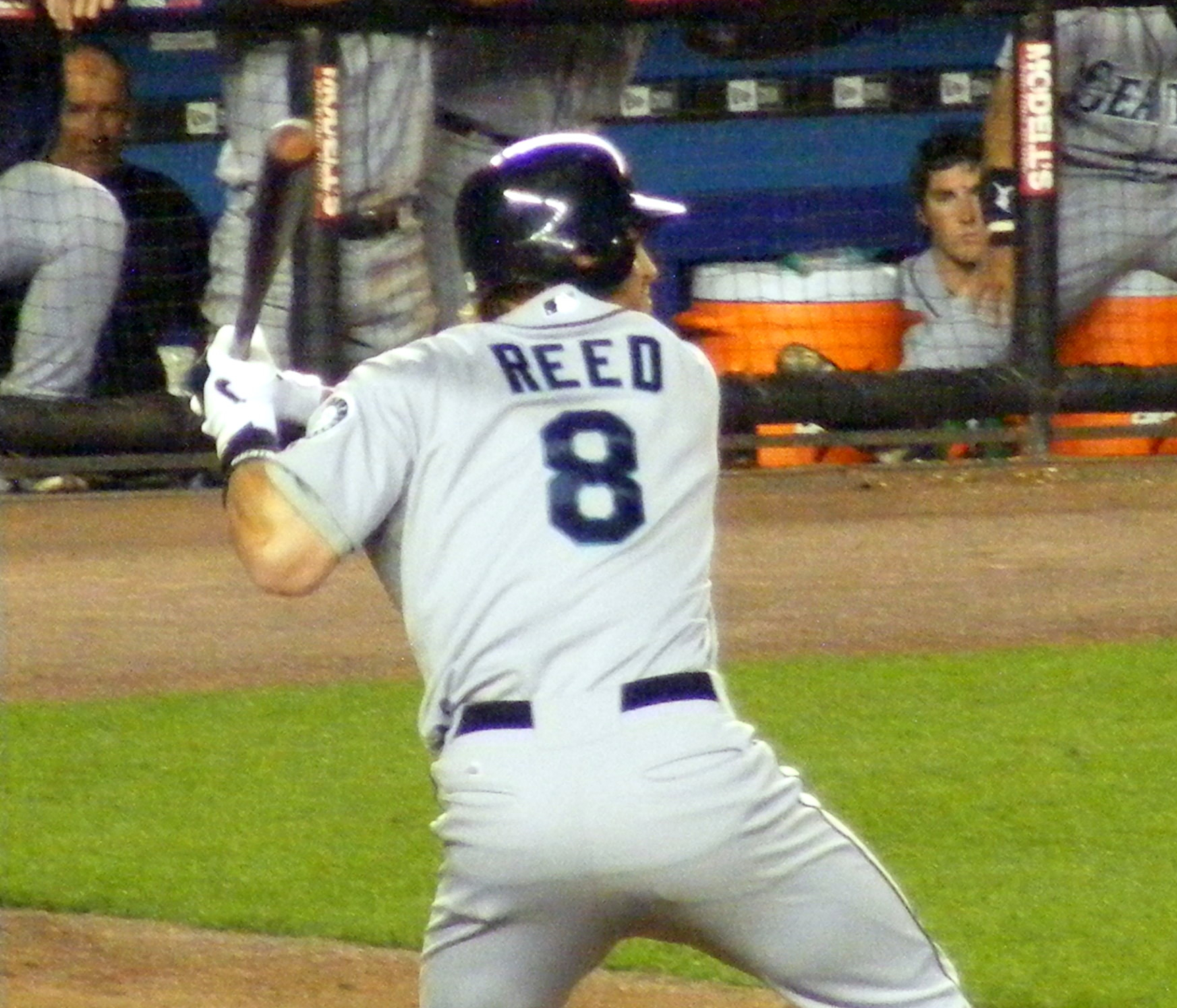 Jeremy Reed batting for the Seattle Mariners on June 23, 2008